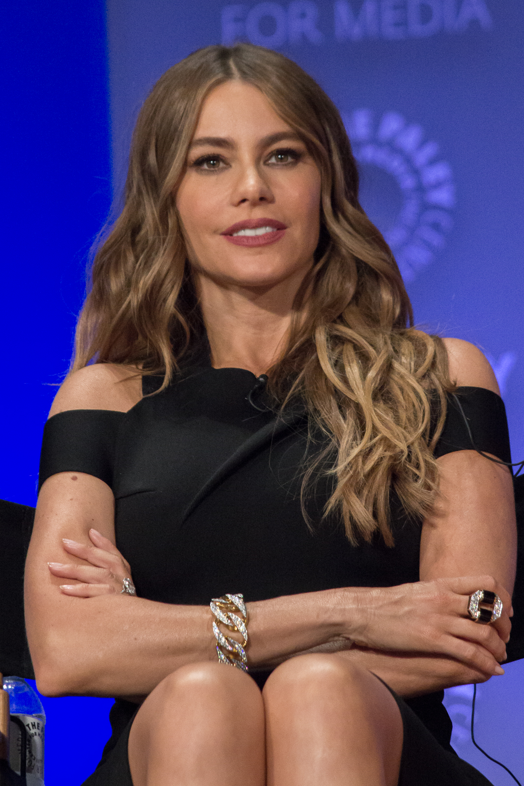 Actress Sofía Vergara at the 2015 PaleyFest for the show "Modern Family"